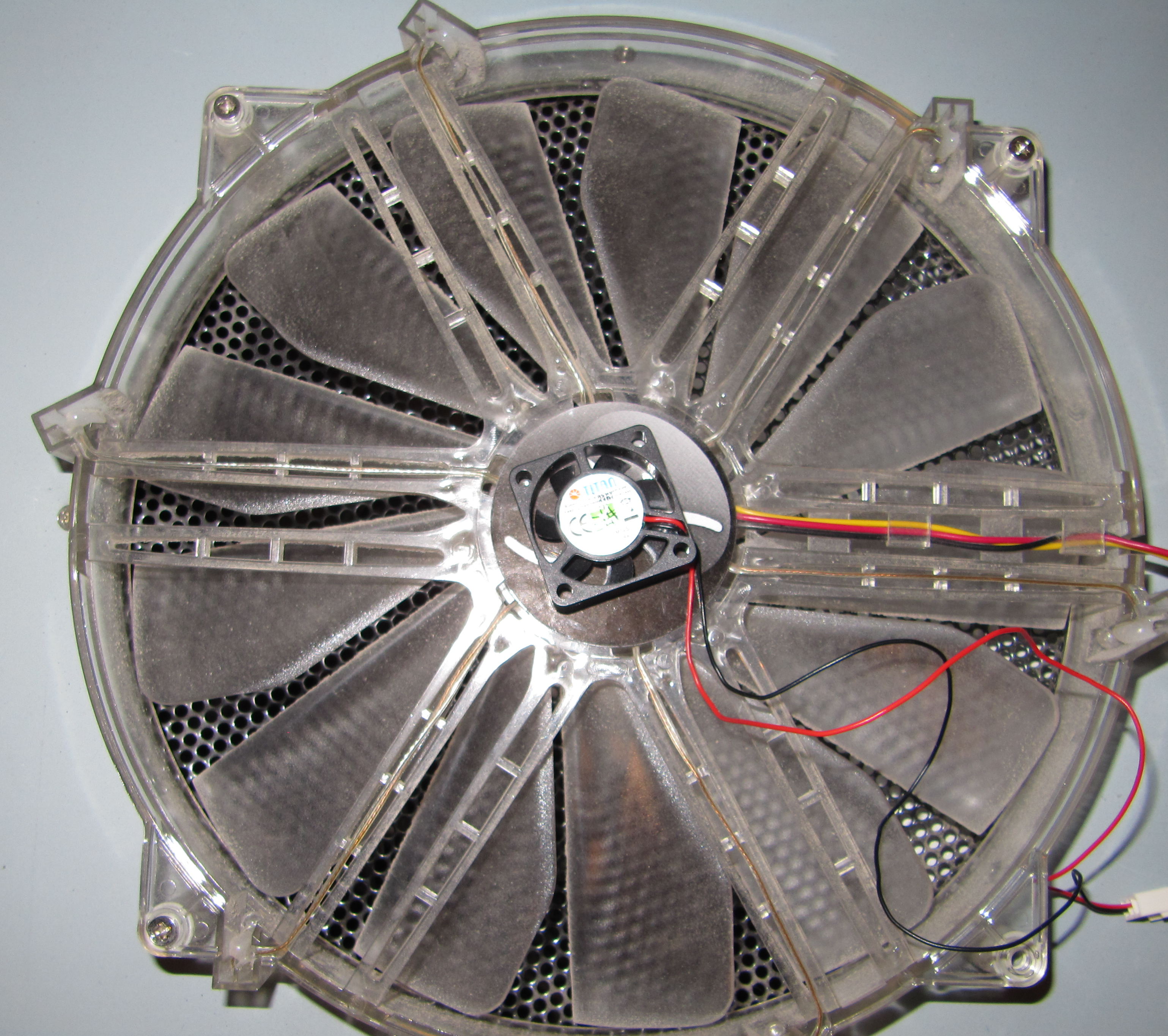 A small PC-fan (Titan TFD-3007M12S 30mm[1][2]) lying on a big one (Sharkoon 250mm fan[3])